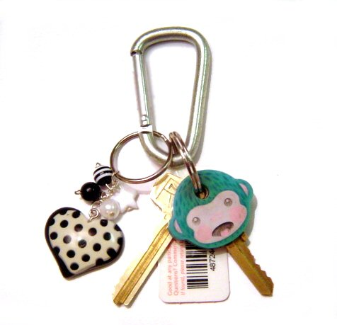 A DIY keychain made by pictured with keys.